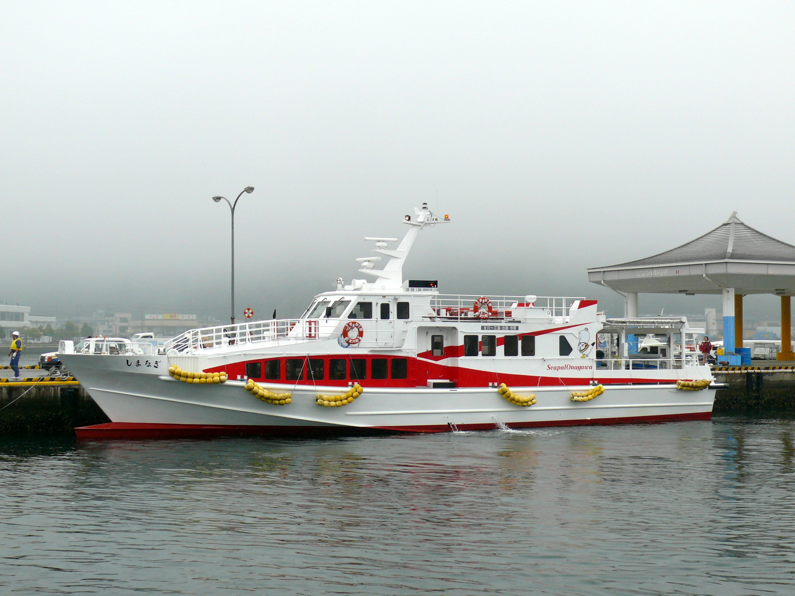 Seapal Onagawa shimanagi Onagawa Port(Japan).